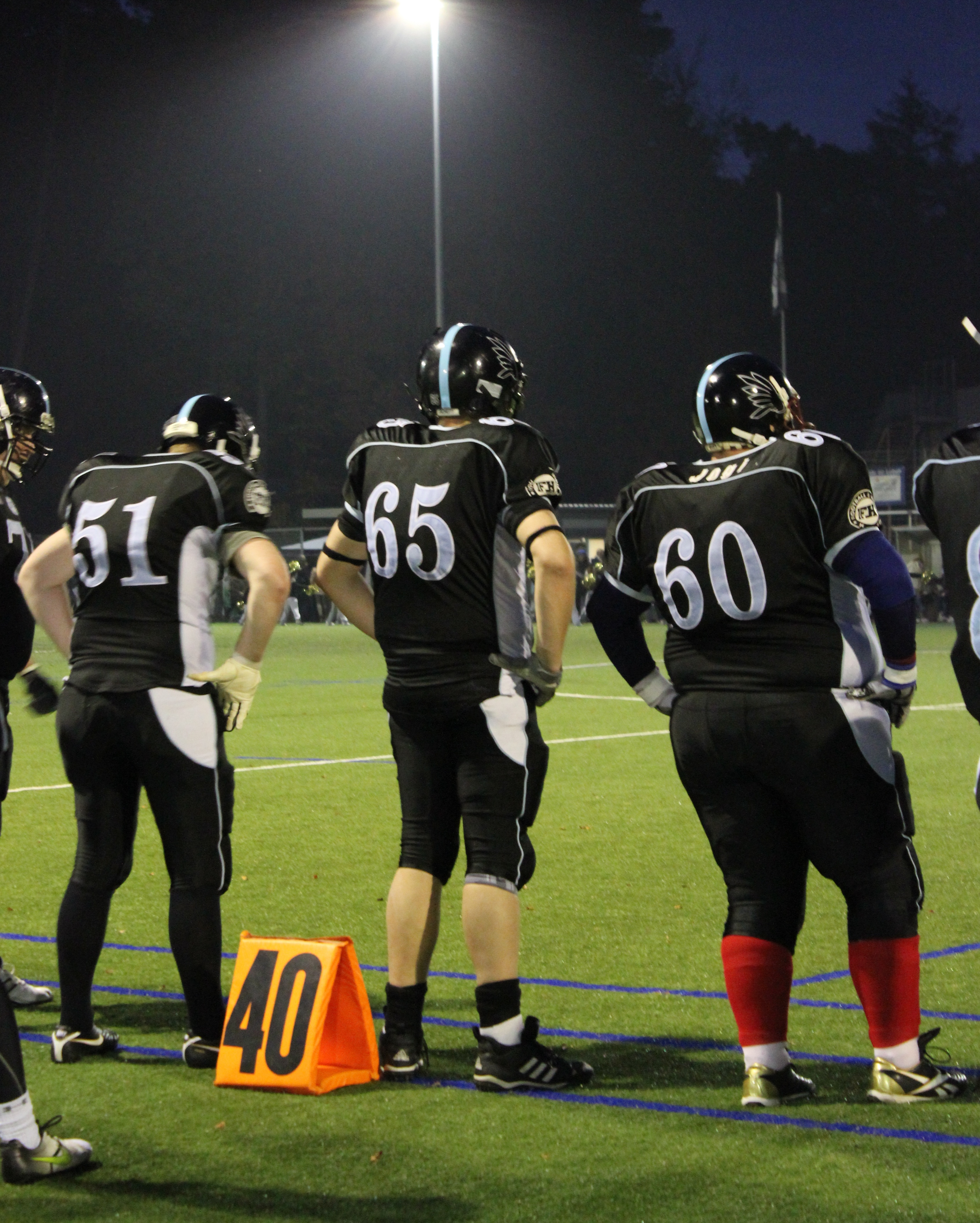 Footballplayers in Germany, 2011